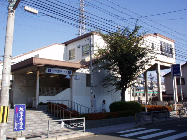 Kyoto Municipal Transportation Bureau Karasuma Line & Kinki Nippon Railway Takeda Station Building South Gate